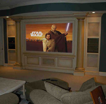 Projection screen in a home theater, displaying a high-definition television image.